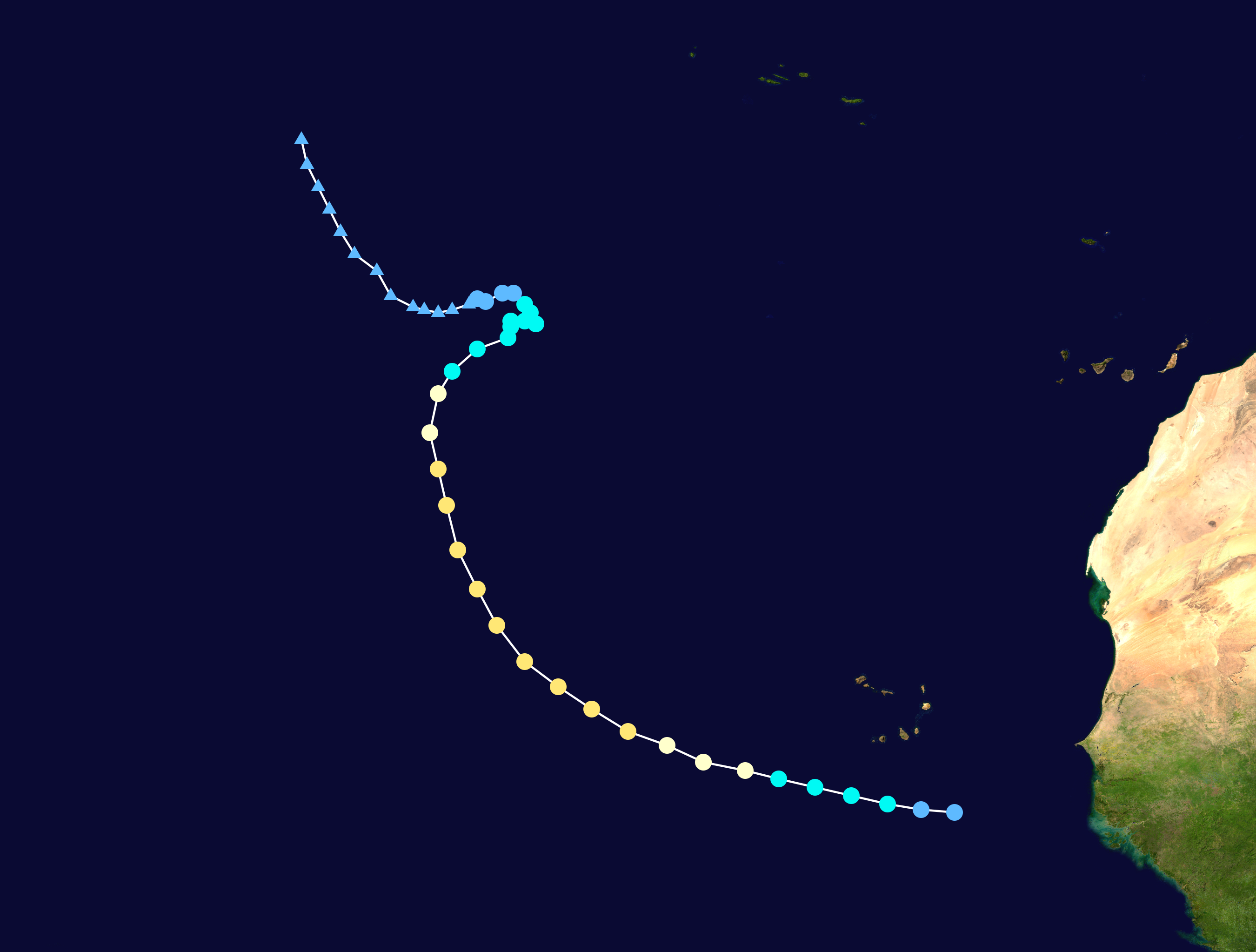 Track map of Hurricane Danielle of the 2004 Atlantic hurricane season. The points show the location of the storm at 6-hour intervals. The colour represents the storm's maximum sustained wind speeds as classified in the Saffir–Simpson scale (see below), and the shape of the data points represent the nature of the storm, according to the legend below. Saffir–Simpson scale Tropical depression≤38 mph≤62 km/h Category 3111–129 mph178–208 km/h Tropical storm39–73 mph63–118 km/h Category 4130–156 mph209–251 km/h Category 174–95 mph119–153 km/h Category 5≥157 mph≥252 km/h Category 296–110 mph154–177 km/h Unknown Storm type Tropical cyclone Subtropical cyclone Extratropical cyclone / Remnant low / Tropical disturbance / Monsoon depression